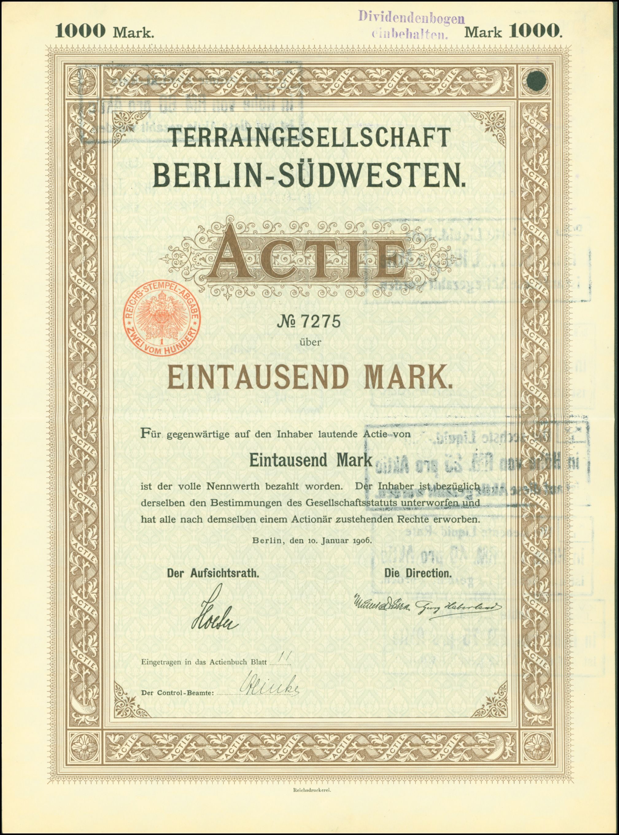 Share of the Terraingesellschaft Berlin-Südwest, issued 10. January 1906